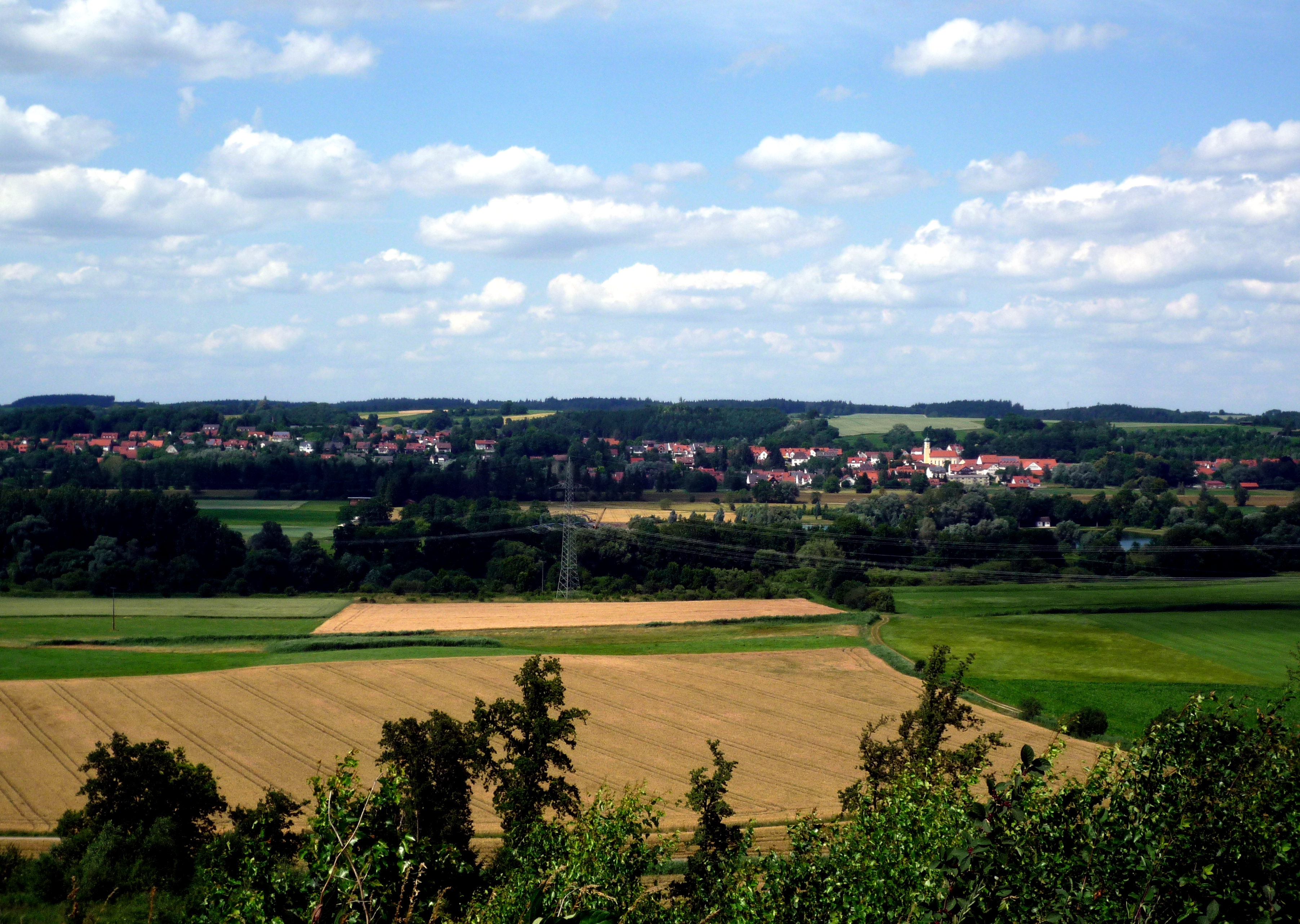 Haag an der Amper from south